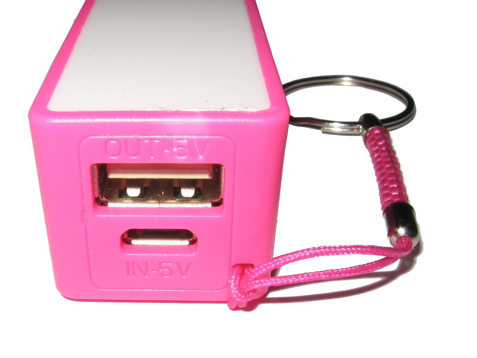 Powerbank, pink, USB-micro in and USB out.